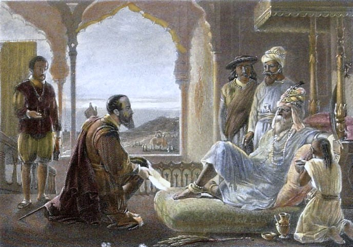 A steel engraving from the 1850's, with modern hand coloring Source: ebay, Feb. 2007